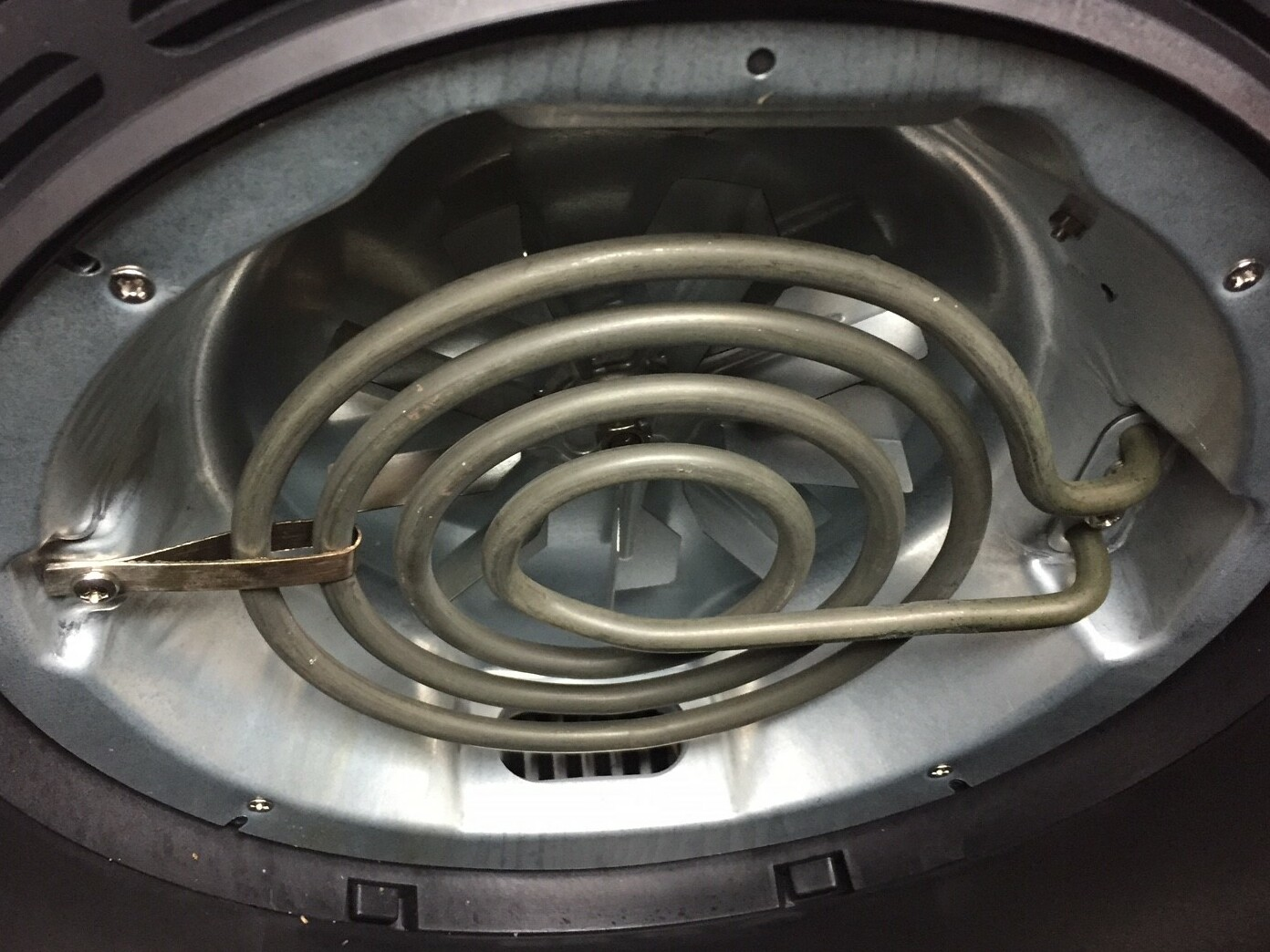 It shows the heating element and the fan inside an air fryer